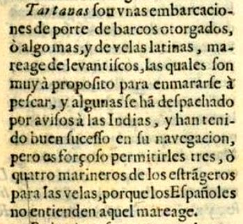 Tartana definition from . Norte de la contratacion de las Indias occidentales. - Sevilla, Blas 1672. Blas, 1672, by Joseph de Veitia Linage